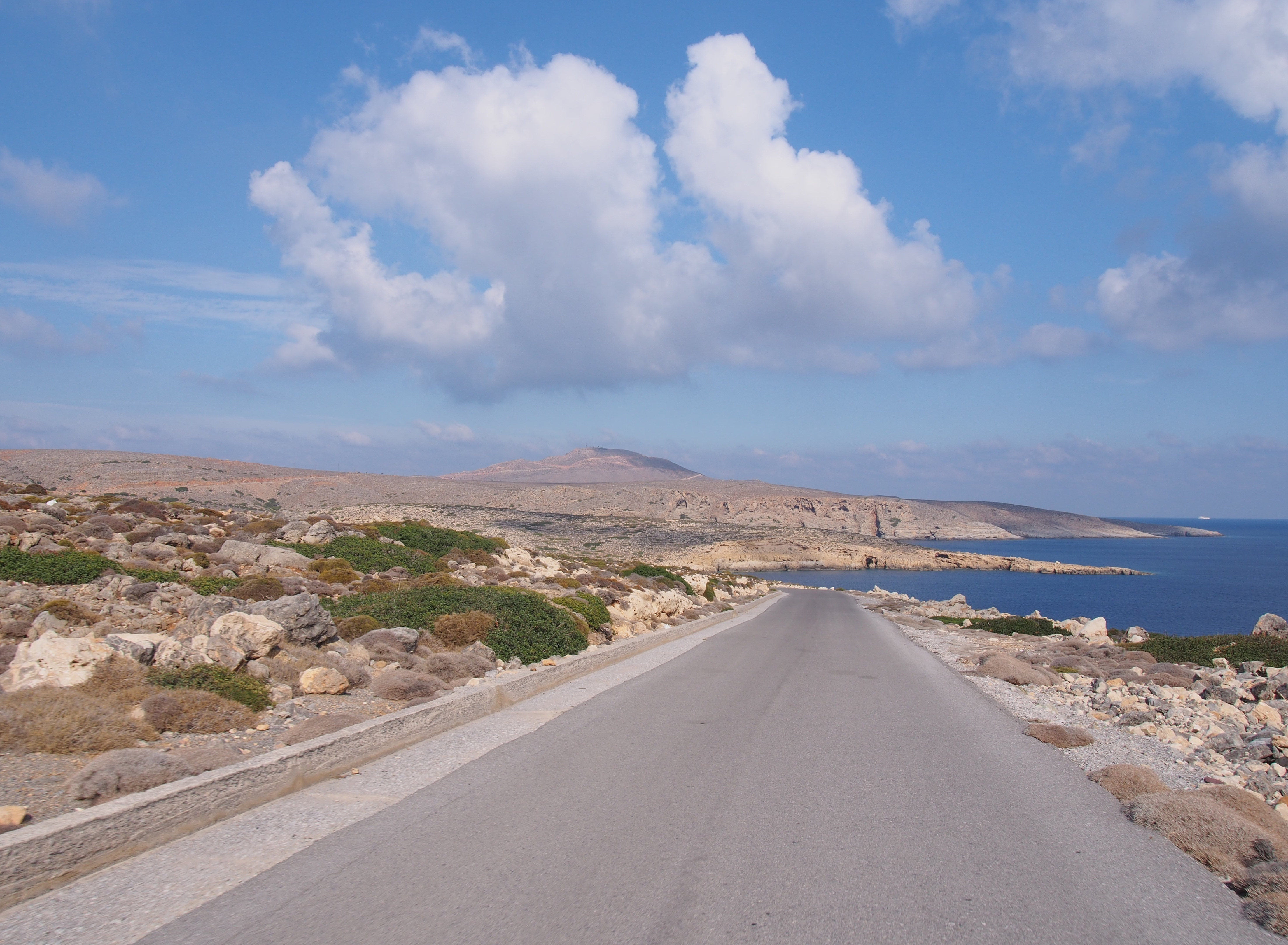 The road leading to Cavo Sidero, the NE corner of Crete This is a photography of Natura 2000 protected area with ID GR4320009